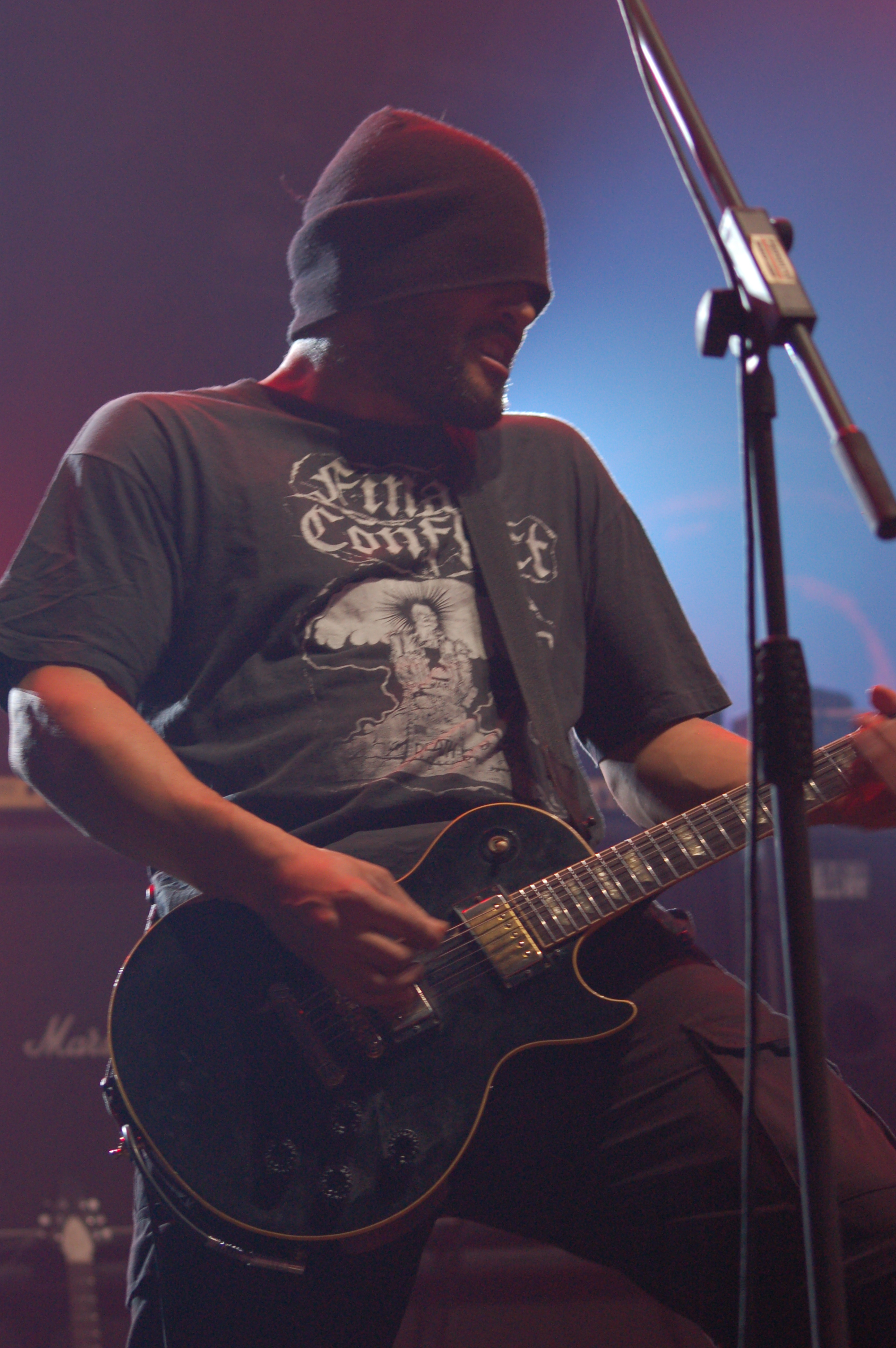 Alex Hellid from Entombed during Metalmania 2007 festival